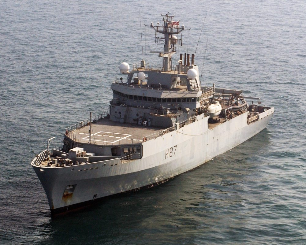 Royal Navy survey vessel HMS Echo. Echo was launched at Appledore in Devon in 2002, and was designed to carry out a wide range of survey work, including support to submarine and amphibious operations, through the collection of oceanographic and bathymetric (analysis of the ocean, its salinity and sound profile) data. Her survey motor boat, Pathfinder, is capable of operating independently, supporting a small group of surveyors who can live and work ashore to carry out surveys. Echo, which is based in Devonport, was the first Royal Navy ship to use azimuth thrusters, where the propellers are part of a swivelling pod, allowing for precise manouevring. Capable of collecting an array of military hydrographic and oceanographic data, due to her multi-role capability Echo is also equipped to support mine warfare and amphibious operations. To ensure she can operate in any environment she possesses a impressive array of weapons for force protection. Echo also carries a small detachment of Royal Marines. Echo left Devonport in the first week of 2011 on a two-year deployment to the Red Sea, the Gulf, the Indian Ocean, the Middle and Far East and returned to home waters at Devonport in August 2012. After spending two months in Falmouth for a revamp, the specialist survey ship spent the final weeks of last year putting would-be navigators through their paces in the waters off the south-west of England. © Crown Copyright 2013 Photographer: LA(Phot) Chris Wenham Image 45155676.jpg from This image is available for high resolution download at subject to the terms and conditions of the Open Government License at Search for image number 45155676.jpg For latest news visit Follow us